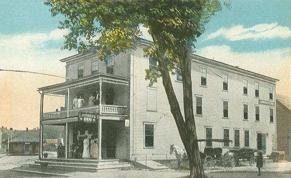 Lindsay's Inn, Whitefield, NH; from a c. 1915 postcard.